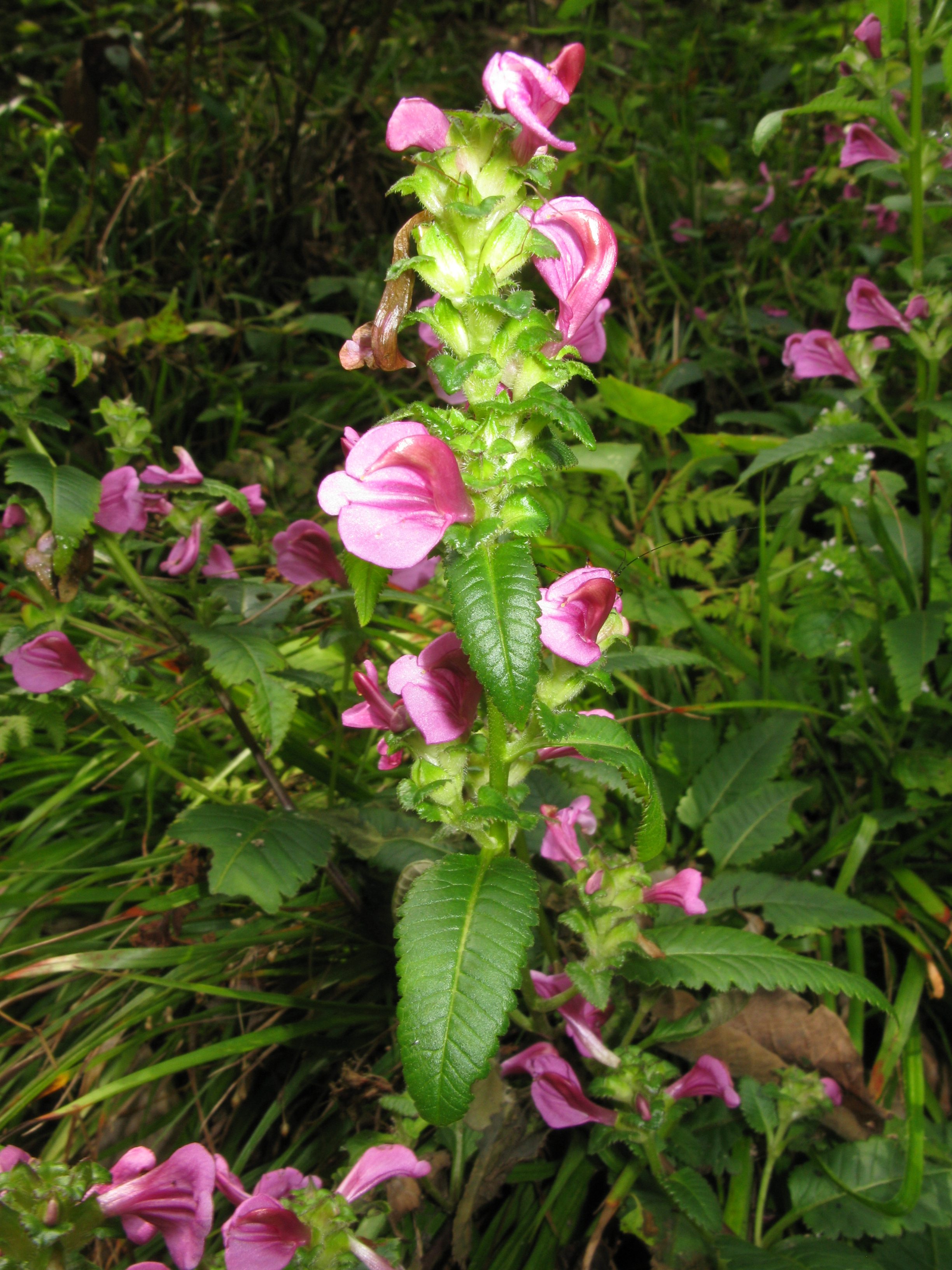 Pedicularis resupinata subsp. oppositifolia, Aizu area, Fukushima pref., Japan